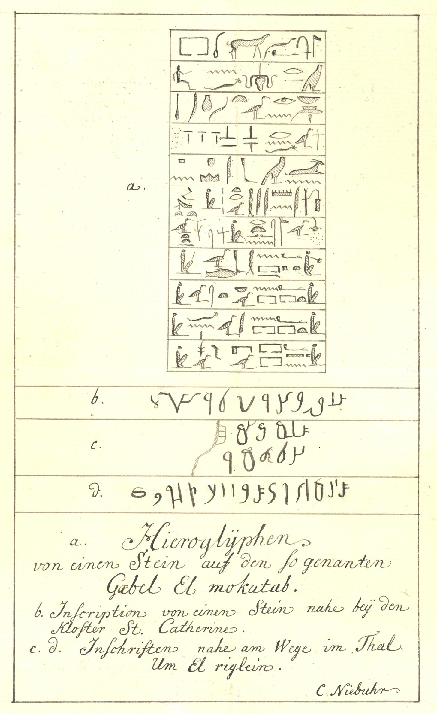 Hieroglyphs by Carsten Niebuhr at Gebel al-Mocatib. Niebuhr sent this drawing to A.G. Moltke in Denmark 4th October 1762